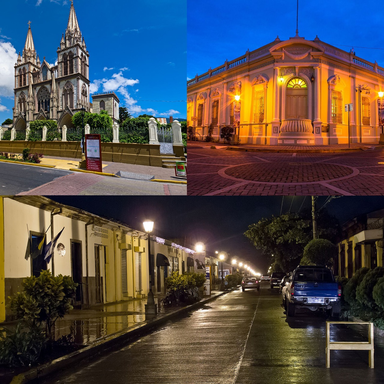 Photo montage of Santa Tecla, El Salvador